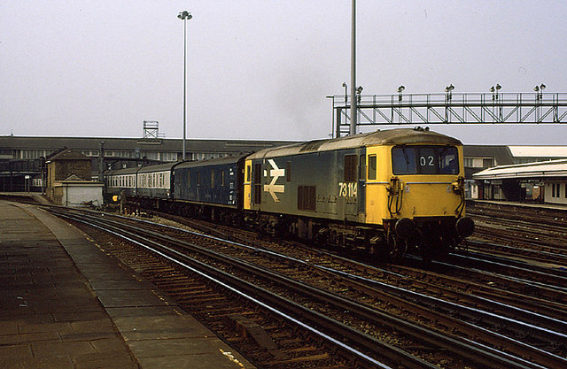 Clapham Junction 73114 heads a train of coaching stock on the fast lines. Although equipped to operate on electric power, the faint plume of smoke above suggests it is running on diesel.